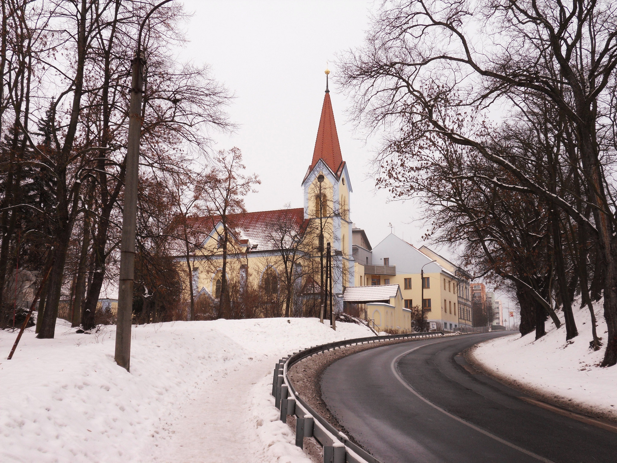 Church of St. Martin and Prokop in Lobzy, Plzeň, Czech Republic